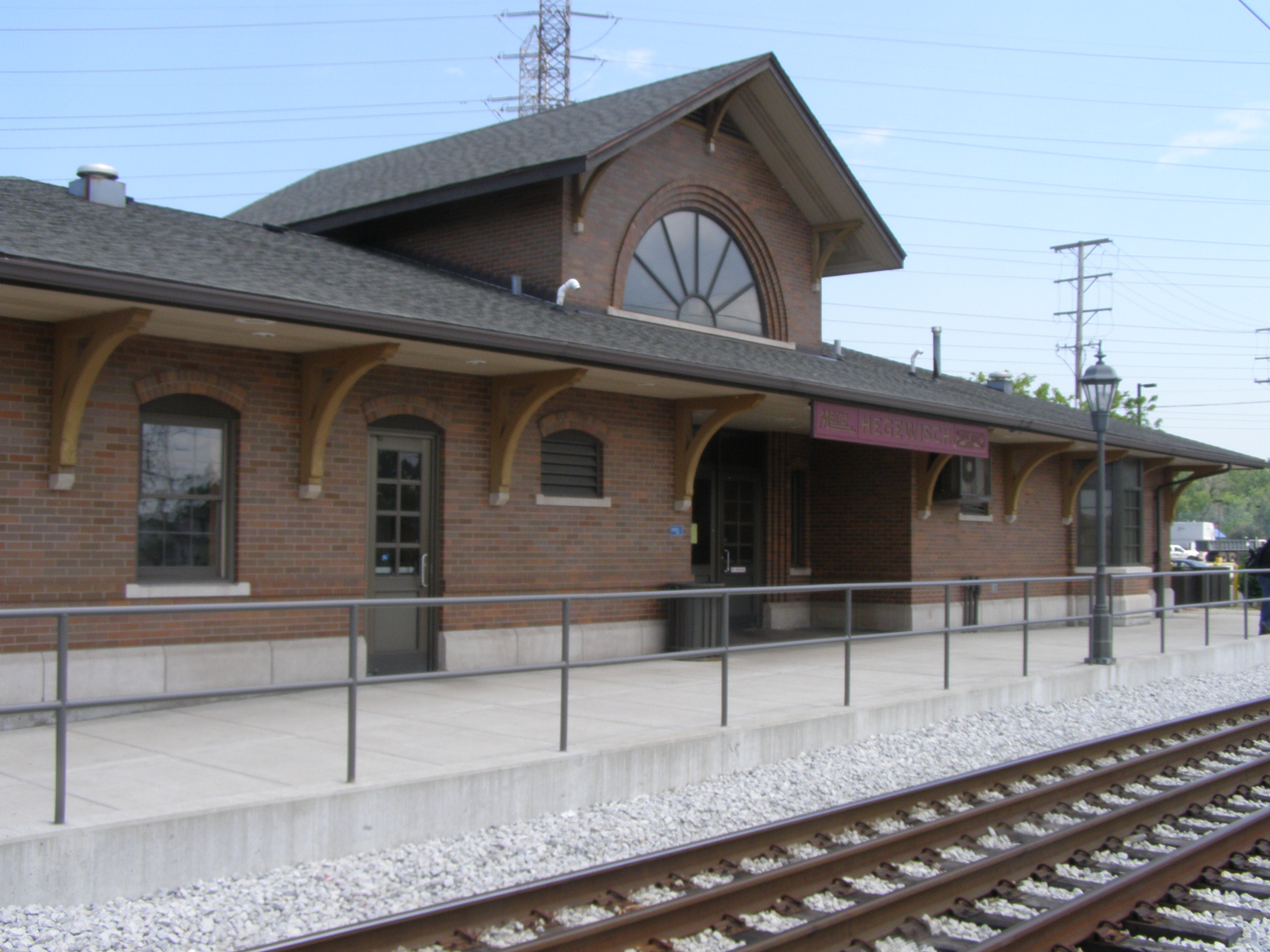 Hegewisch Station (NICTD) of the Chicago, South Shore and South Bend Railroad, Hegewisch, Illinois.